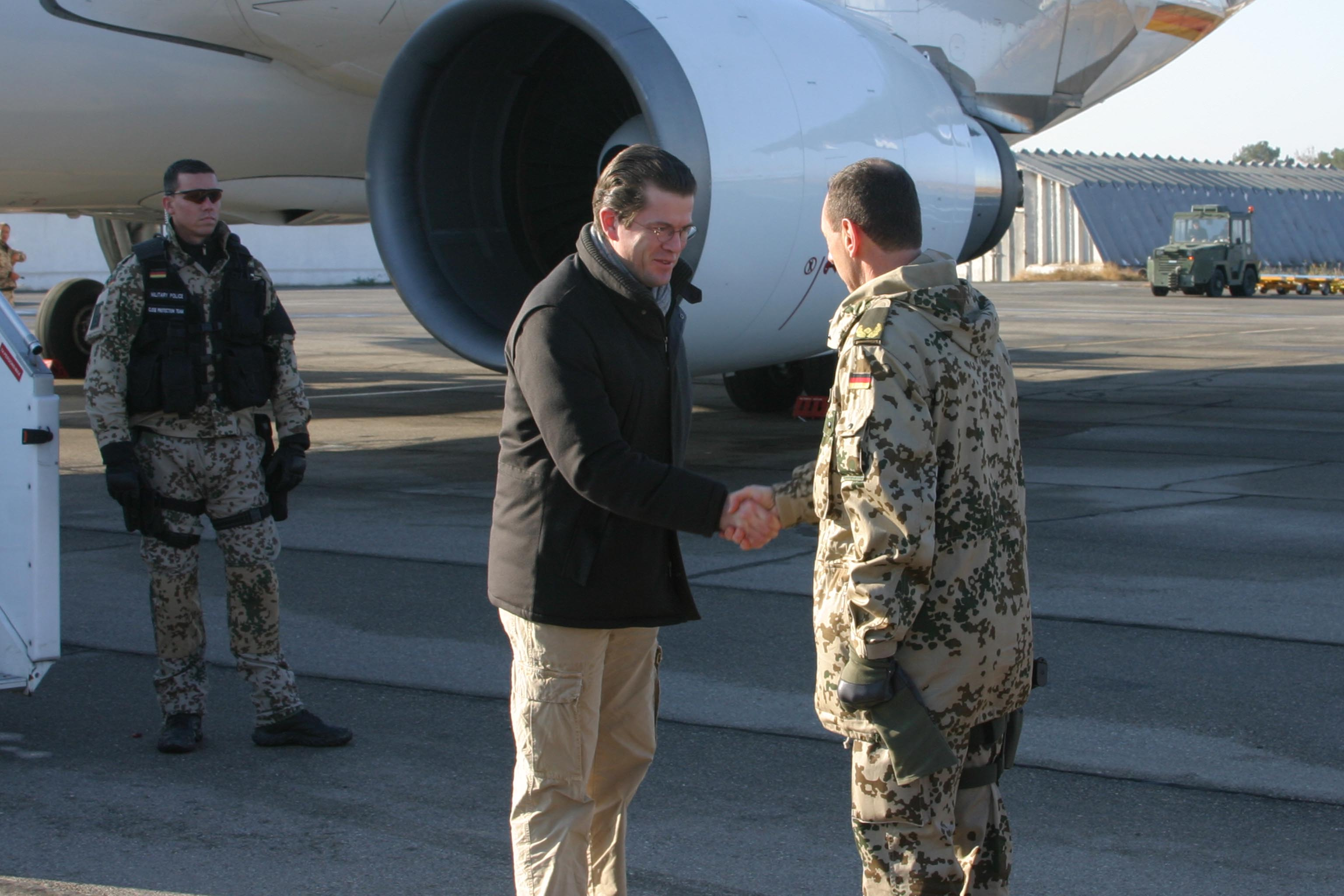 KUNDUZ, Afghanistan-German Minister of Defence, Karl-Theodor Freiherr zu Guttenberg visited the provincial reconstruction team in Kunduz Province with five members of parliament on December 11, 2009. During his visit he joined the Commander of PRT Kunduz for a meeting with senior provincial security and government officials. Minister zu Guttenberg also gave a speech to soldiers stating that a decision concerning Germany's ISAF contingent would be reached after next month's London conference on Afghanistan. (Photo by ISAF Public Affairs)